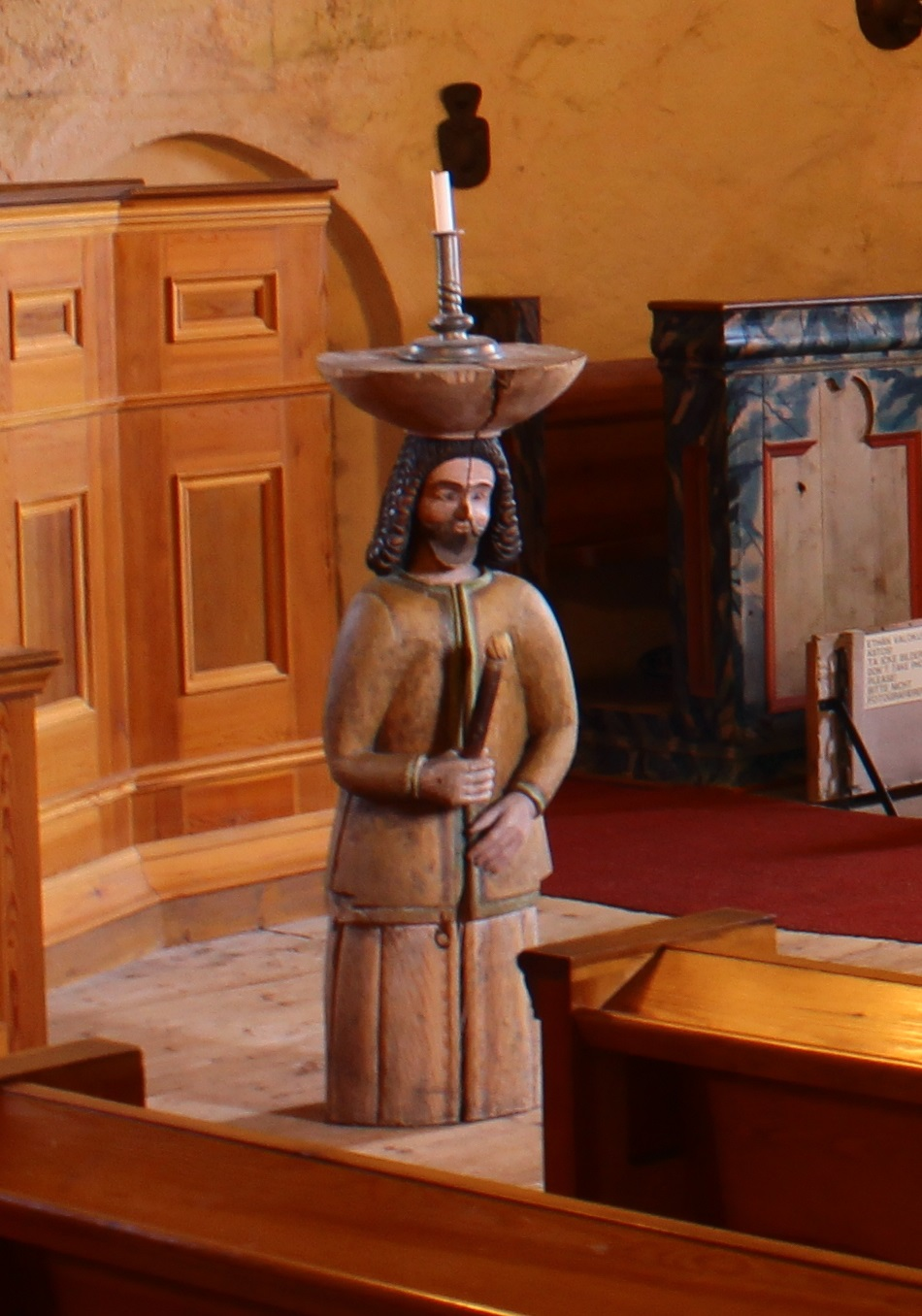 Wooden statue of Samson in Keminmaa old church.